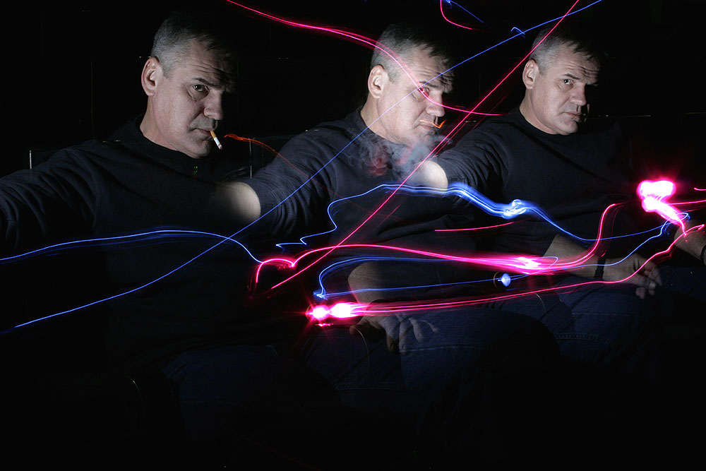 Painting with light - Paweł Matyka.